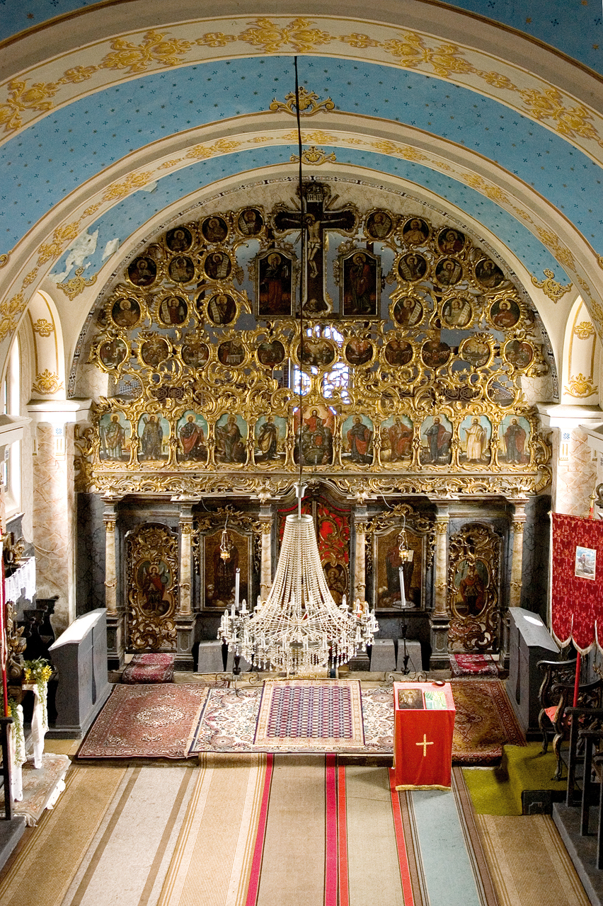 Interior of Orthodox Church of the Saint Stephen in Sremska Mitrovica